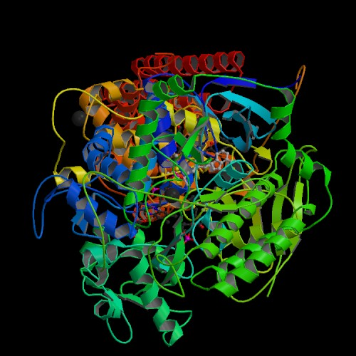 Complex II (Succinate Dehydrogenase) From E. Coli with ubiquinone bound. PDB code: 1NEK